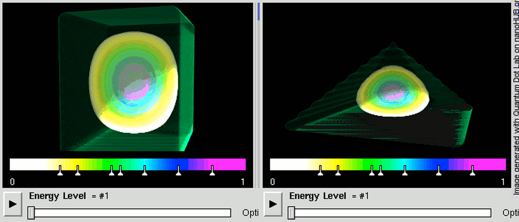 Still of first frame of animated gif